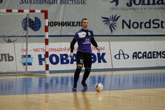 Ukrainian football and futsal player Oleksii Popov